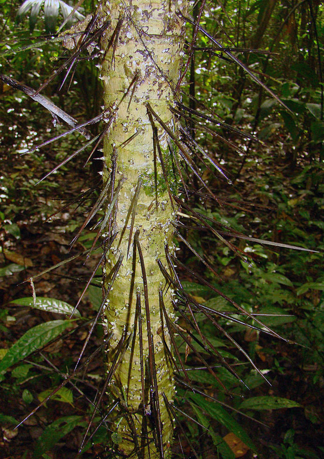 These were once used for poison darts. The lower thorns turn into roots, giving it the name of Root-spine Palm. Photo from Indio Maiz Reserve, southeastern Nicaragua. In context at